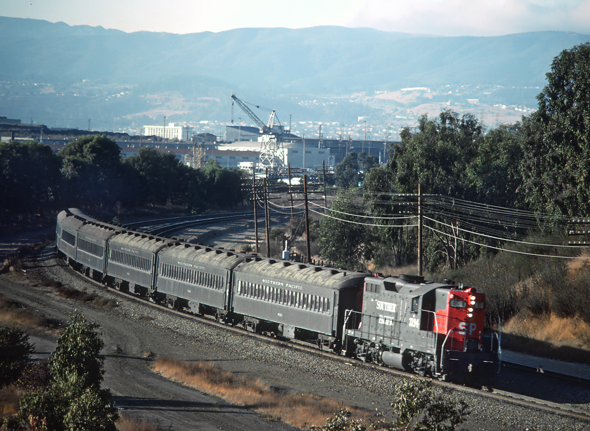 A Roger Puta Photograph This file comes from the Roger Puta collection, which passed to Mel Finzer. They were scanned and posted by Marty Bernard, are in the Public Domain. Attribution to "Roger Puta" is not required for a PD image, but should be done as a matter of courtesy to a major Commons contributor. Mel Finzer, the heirs of this work's copyright holder (usually the creator) have released it into the public domain. This applies worldwide. In some countries this may not be legally possible; if so: The heirs of the creator grant anyone the right to use this work for any purpose, without any conditions, unless such conditions are required by law. See This work is free and may be used by anyone for any purpose. If you wish to use this content, you do not need to request permission as long as you follow any licensing requirements mentioned on this page.